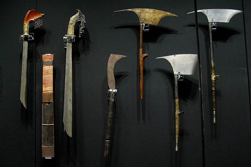 Tausug blades and barongs